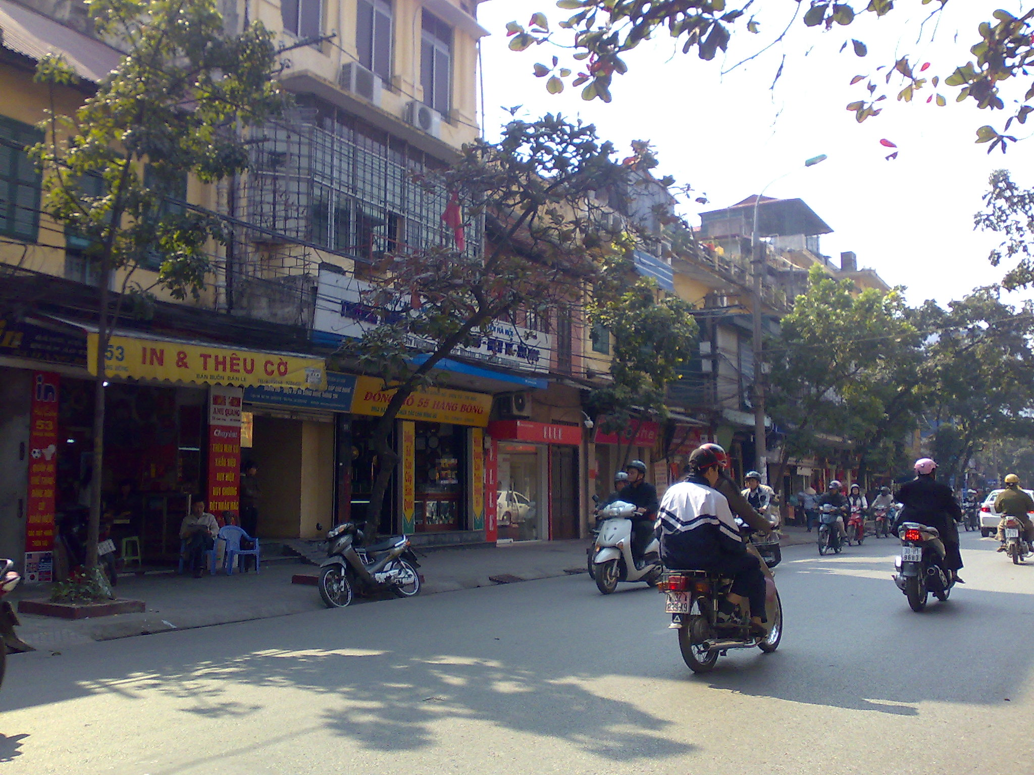 Ancient print and book shops, now remain somes. Motorcyclers now have to use helmets